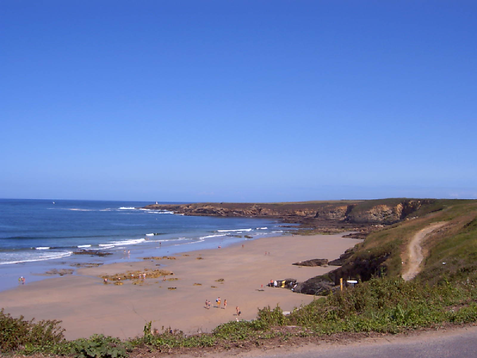 Arnao Beach Figueras/As Figueiras (Asturias-Spain)